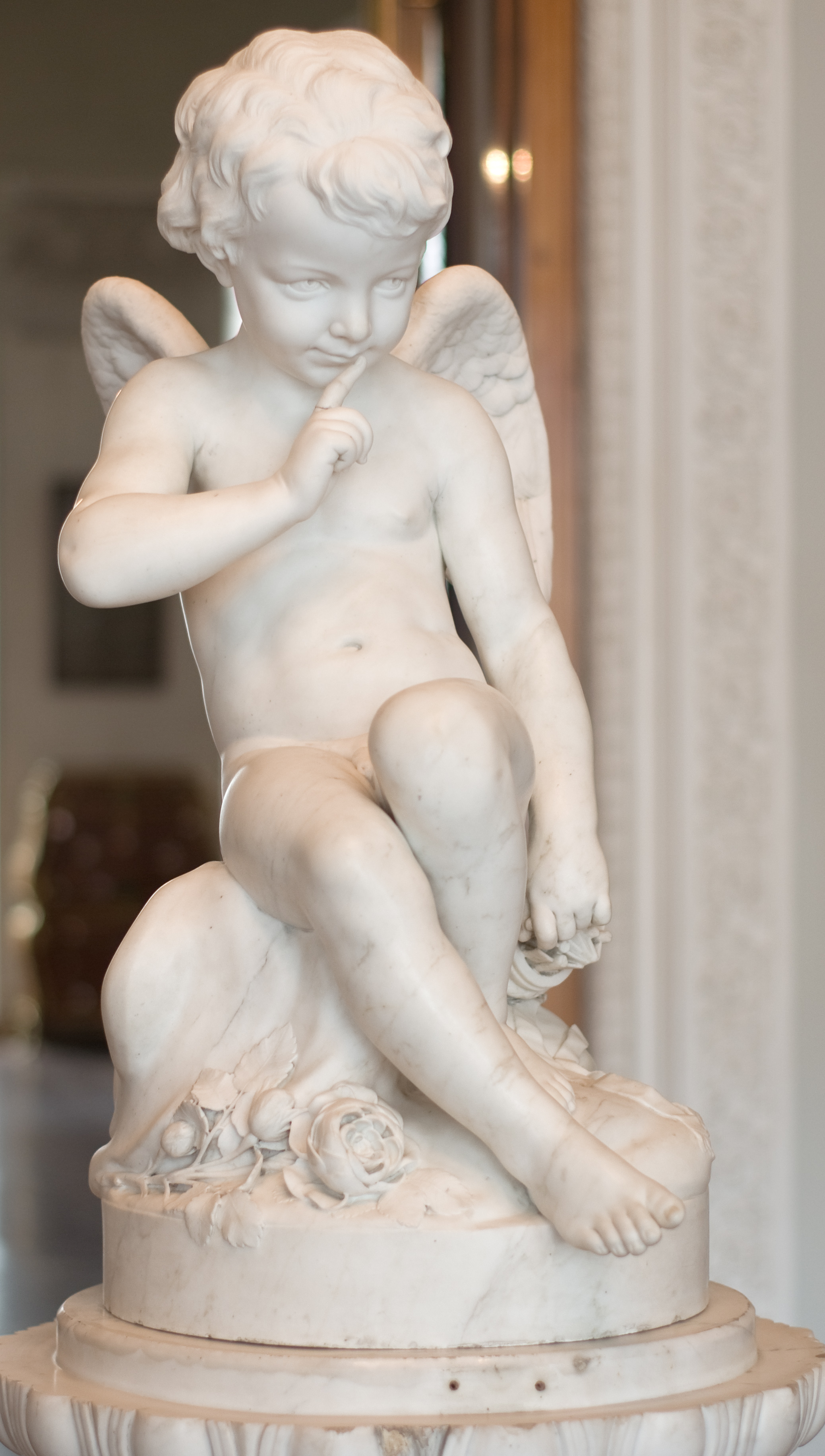 Etienne Maurice Falconet (1716-1791) - Cupid. France, After 1757; Marible; Acquiried for Hermitage in 1931; before - from the Stroganoff collection, St. Petersburg